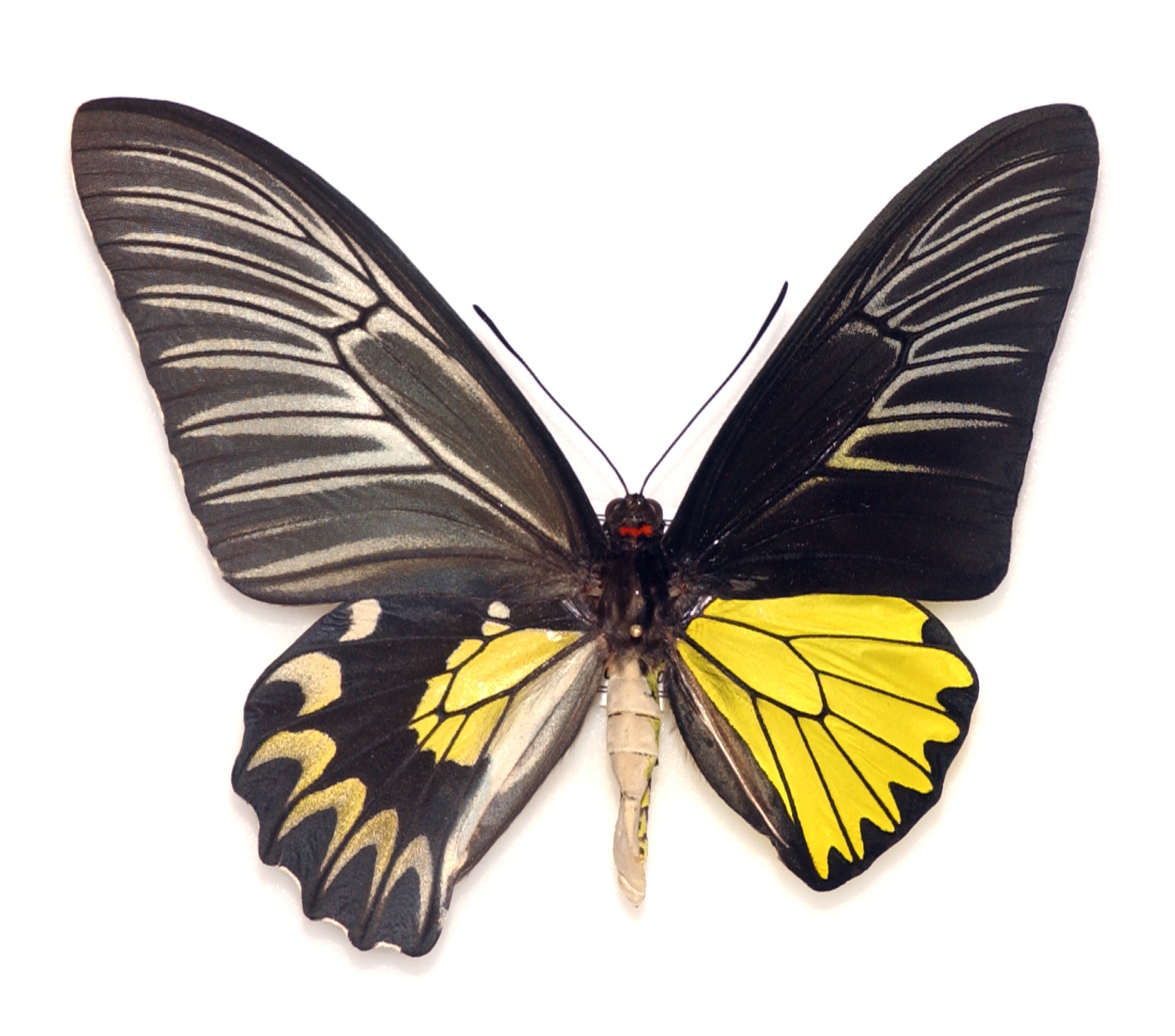 Troides rhadamantus (Gynandromorph) butterfly His firts name was Ornithoptera rhadamantus ; those butterflies have a strong sexual dimorphism. This specimen comes from the naturalists collections of Lille Natural History Museum.